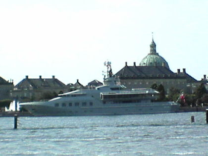 Picture for MY Skat